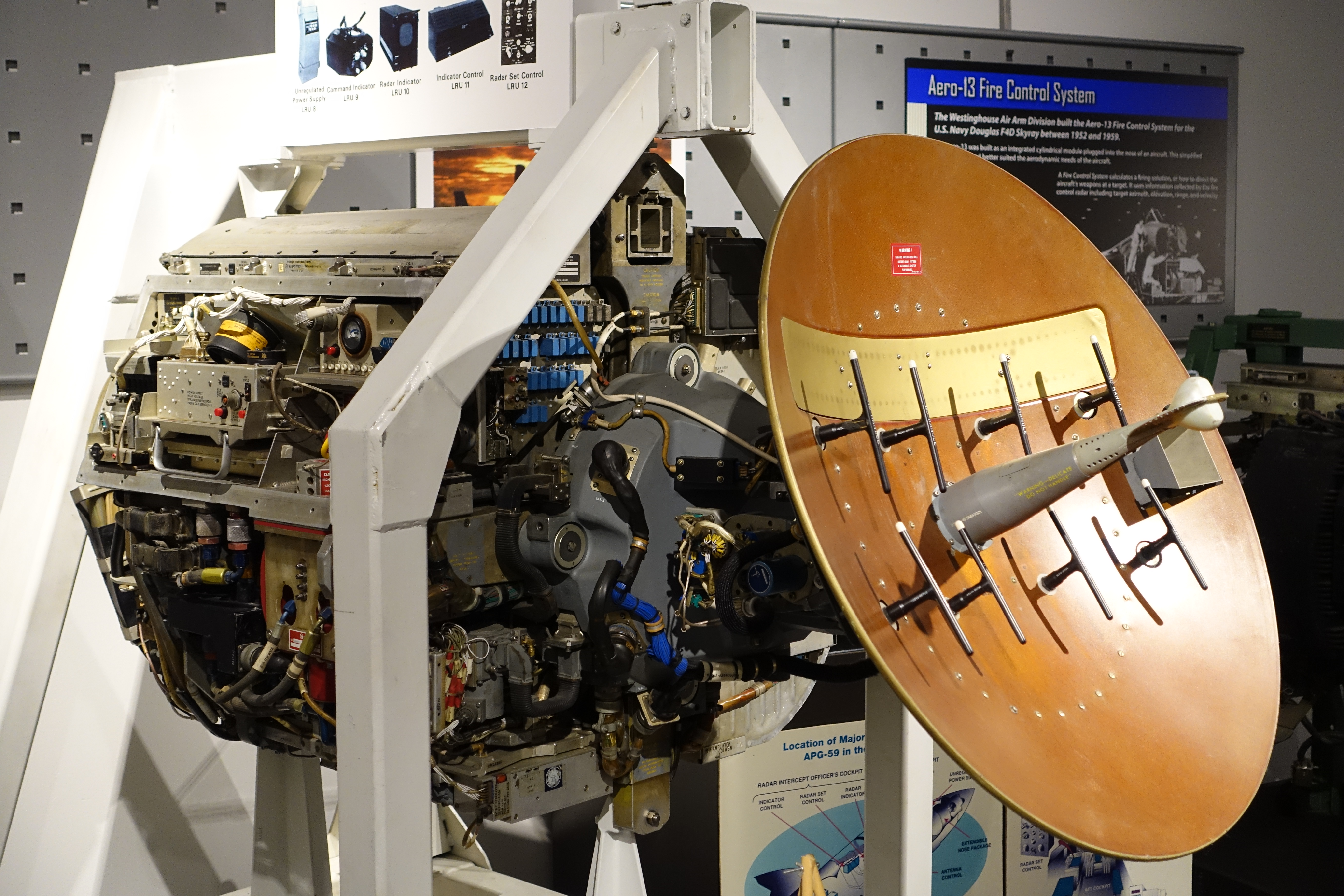 Exhibit in the National Electronics Museum, 1745 West Nursery Road, Linthicum, Maryland, USA. All items in this museum are unclassified. The museum permitted photography without restriction.